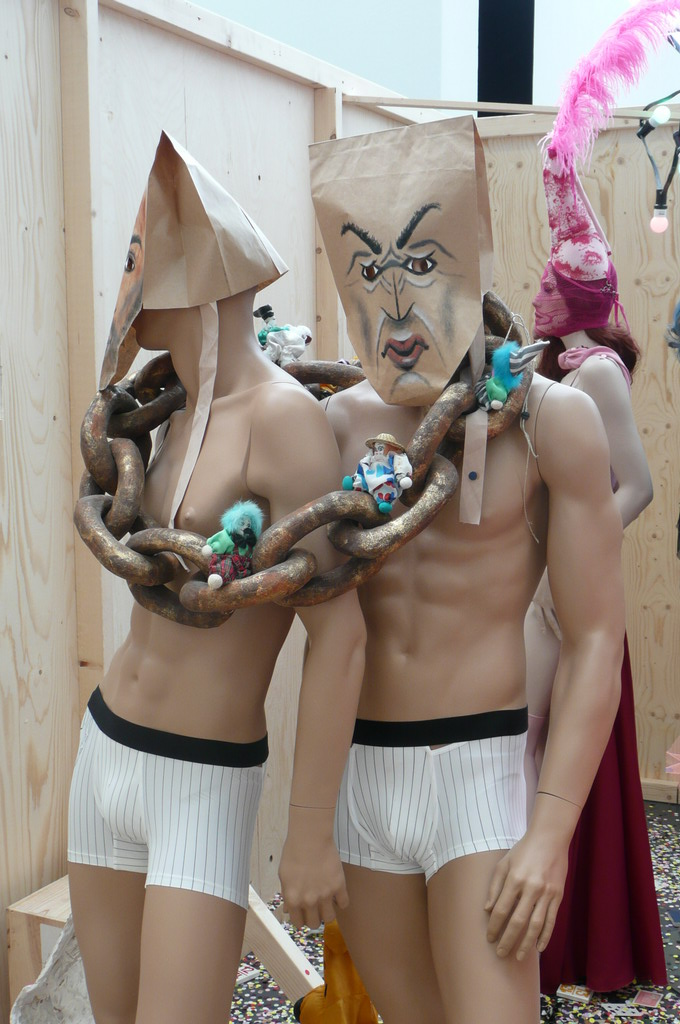 Dutch designer Marlies Dekker retrospective exhibit at Rotterdam Musea, "15 years of Marlies Dekkers"